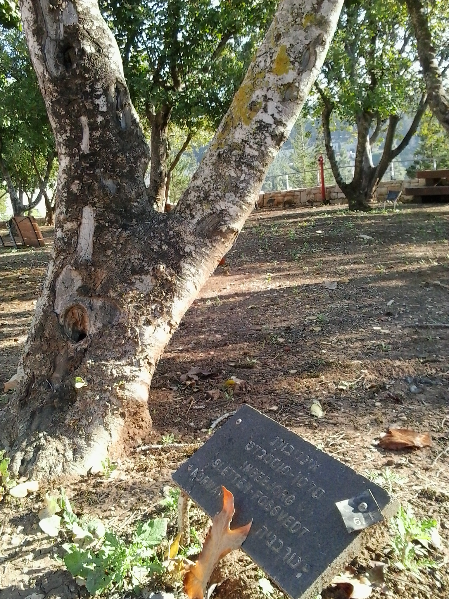 The tree planted at Yad Vashem honoring Righteous Among the Nations Ingebjørg Sletten-Fosstvedt